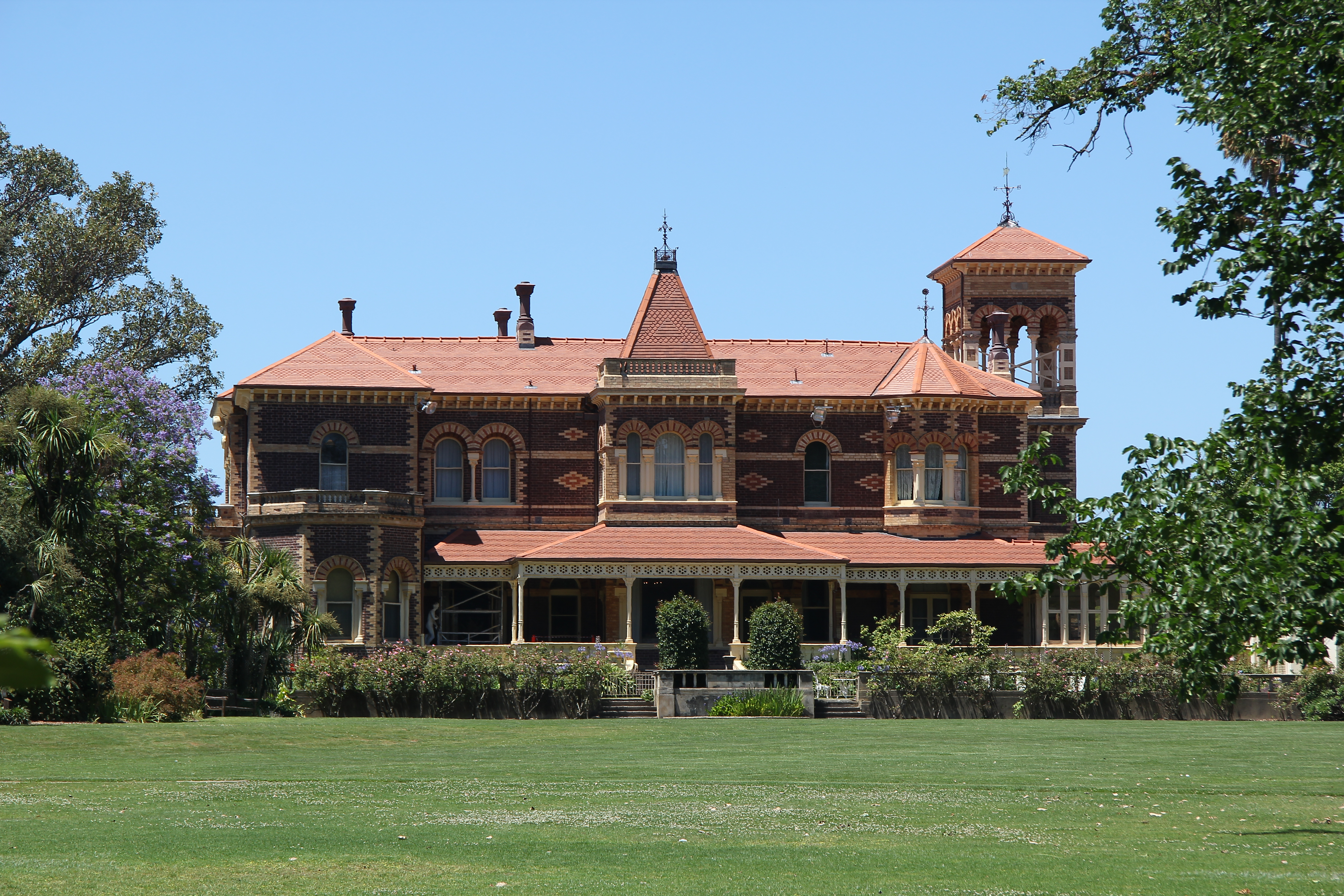 Rippon Lea Estate in Ripponlea, Melbourne, Victoria, Australia